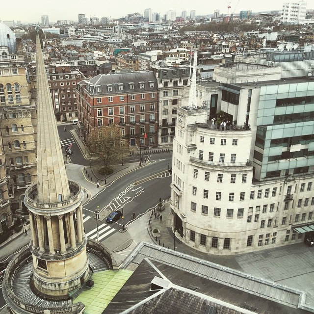 All Souls Church, Langham place and BBC Broadcasting House seen from The Heights...